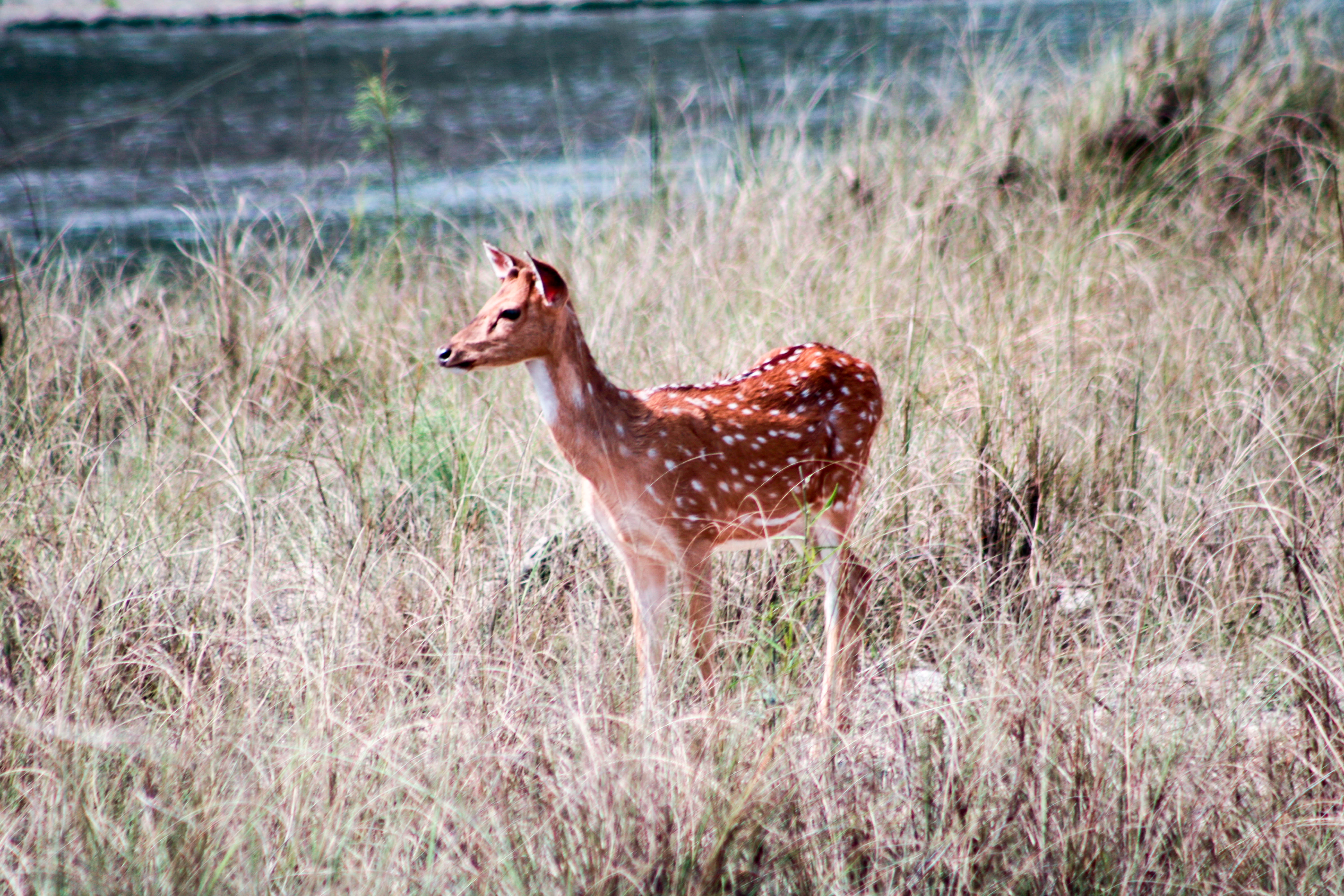 Chital or Spotted deer at Chitwan National Park